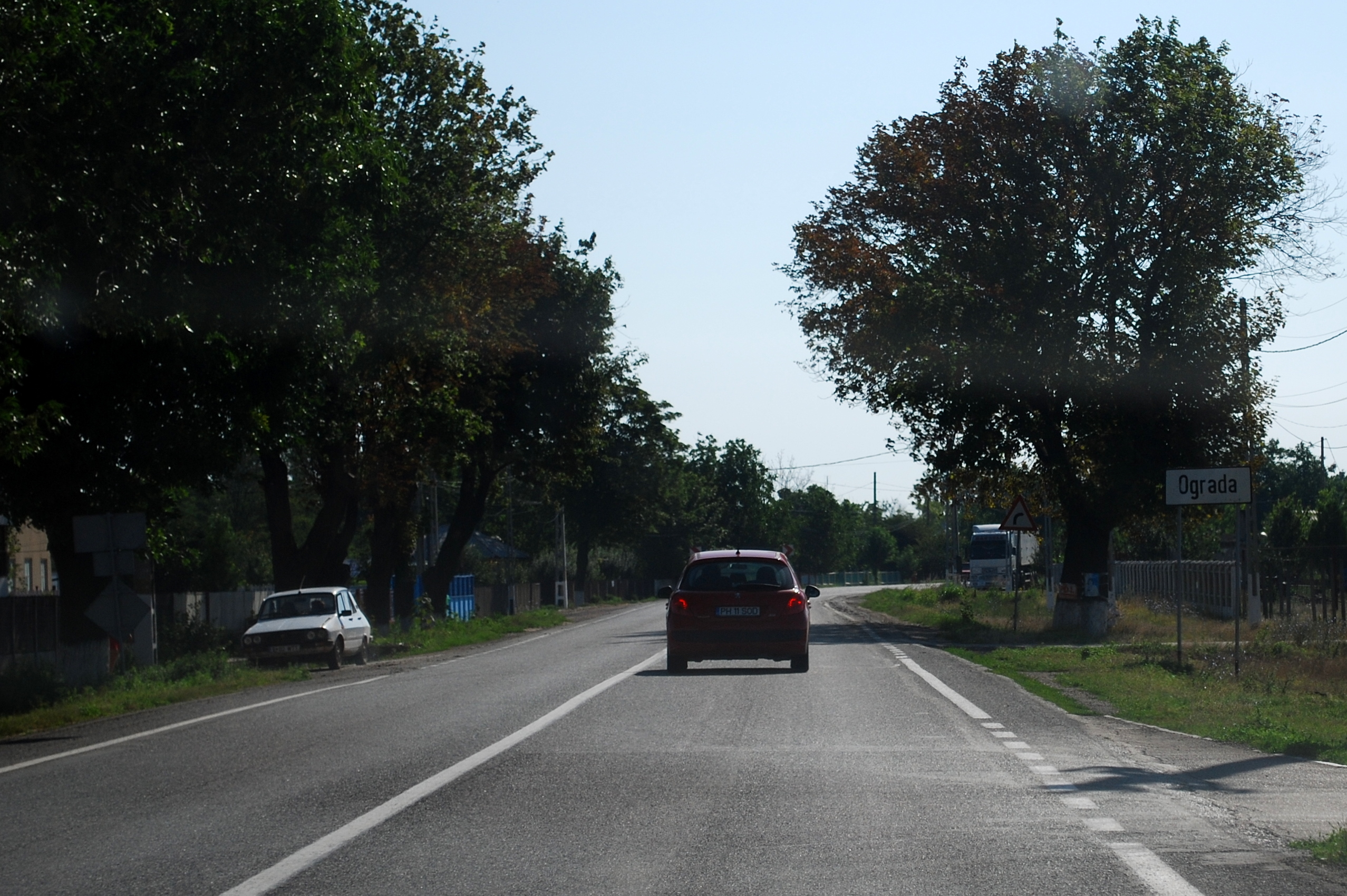 DN2A in Romania entering the village of Ograda, Ialomiţa County